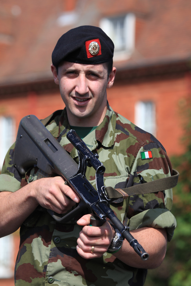 Pte Eoin Larkin Kilkenny Senior Hurler prior to All Ireland Hurling Final 2010